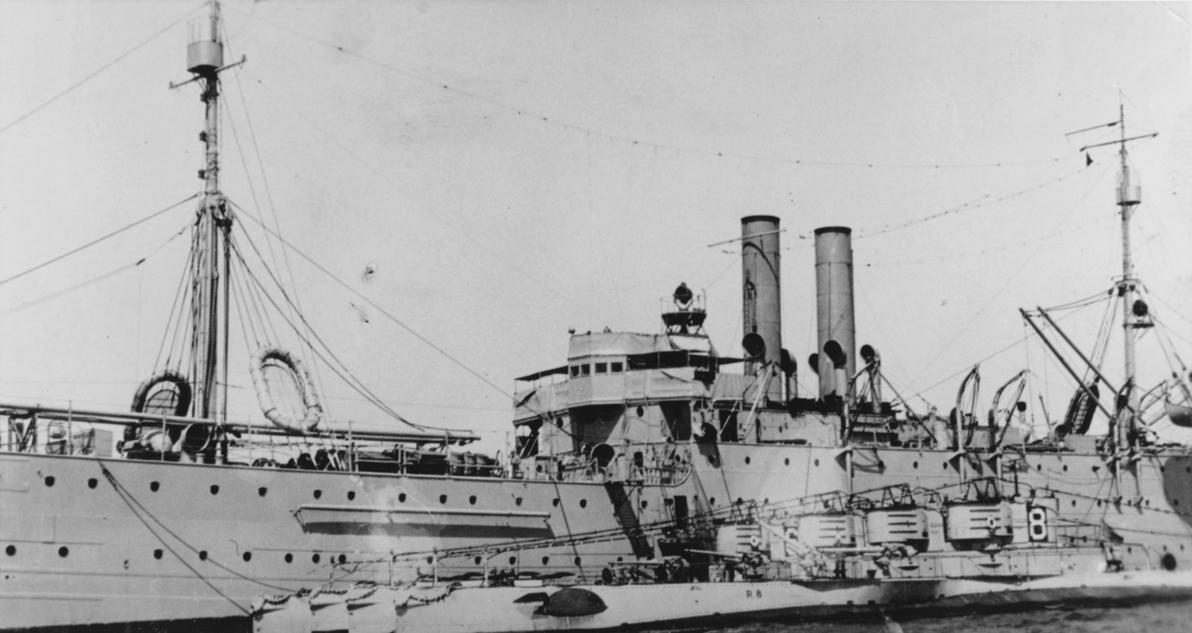 The U.S. Navy submarine tender USS Camden (AS-6) in San Diego Harbor, California (USA), during the early 1920s, with four R-class submarines alongside. The outboard submarine is USS R-8 (SS-85). The inboard boat is USS R-6 (SS-83).